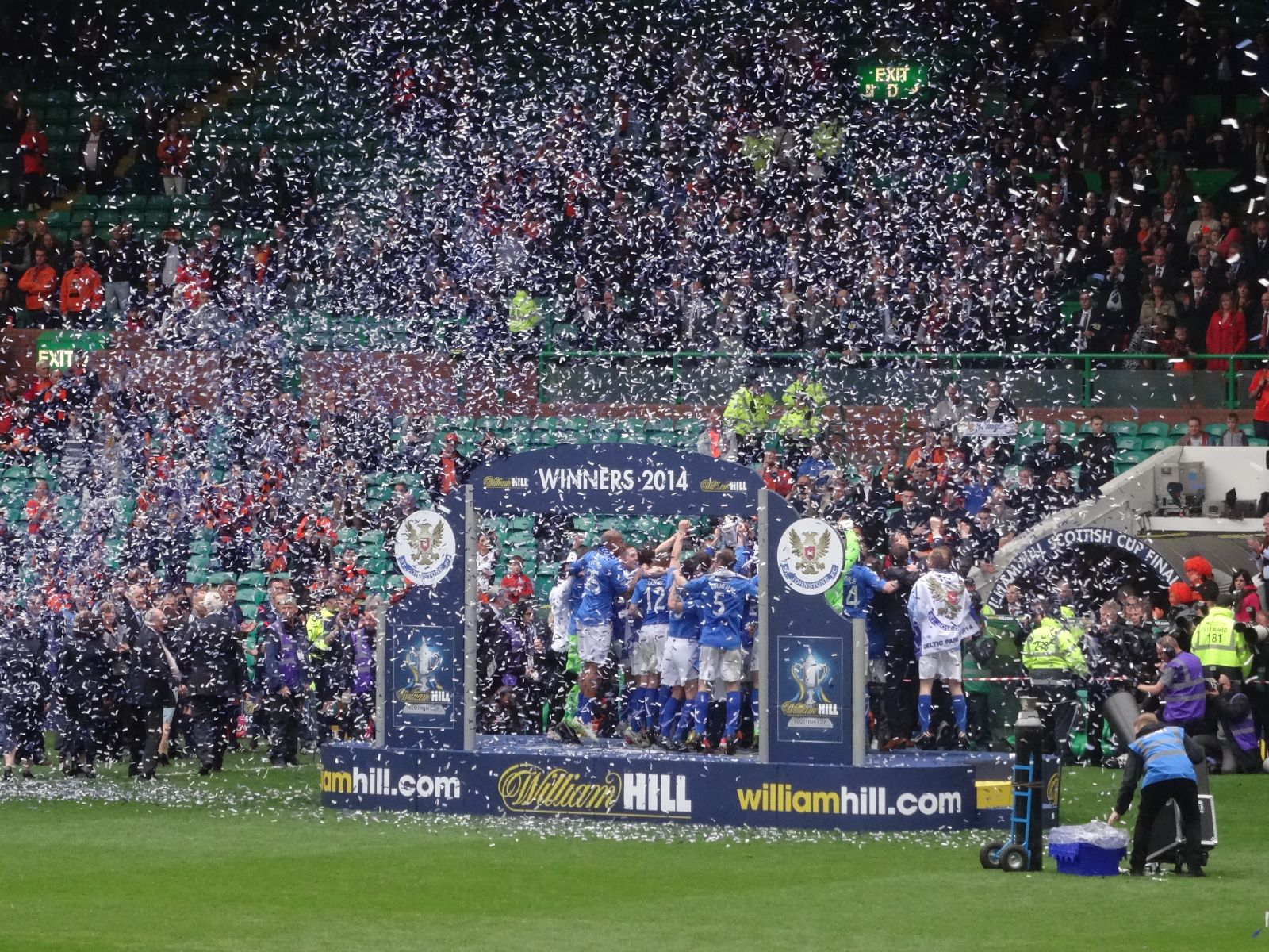 St Johnstone F.C. celebrate winning the Scottish Cup Final in 2014